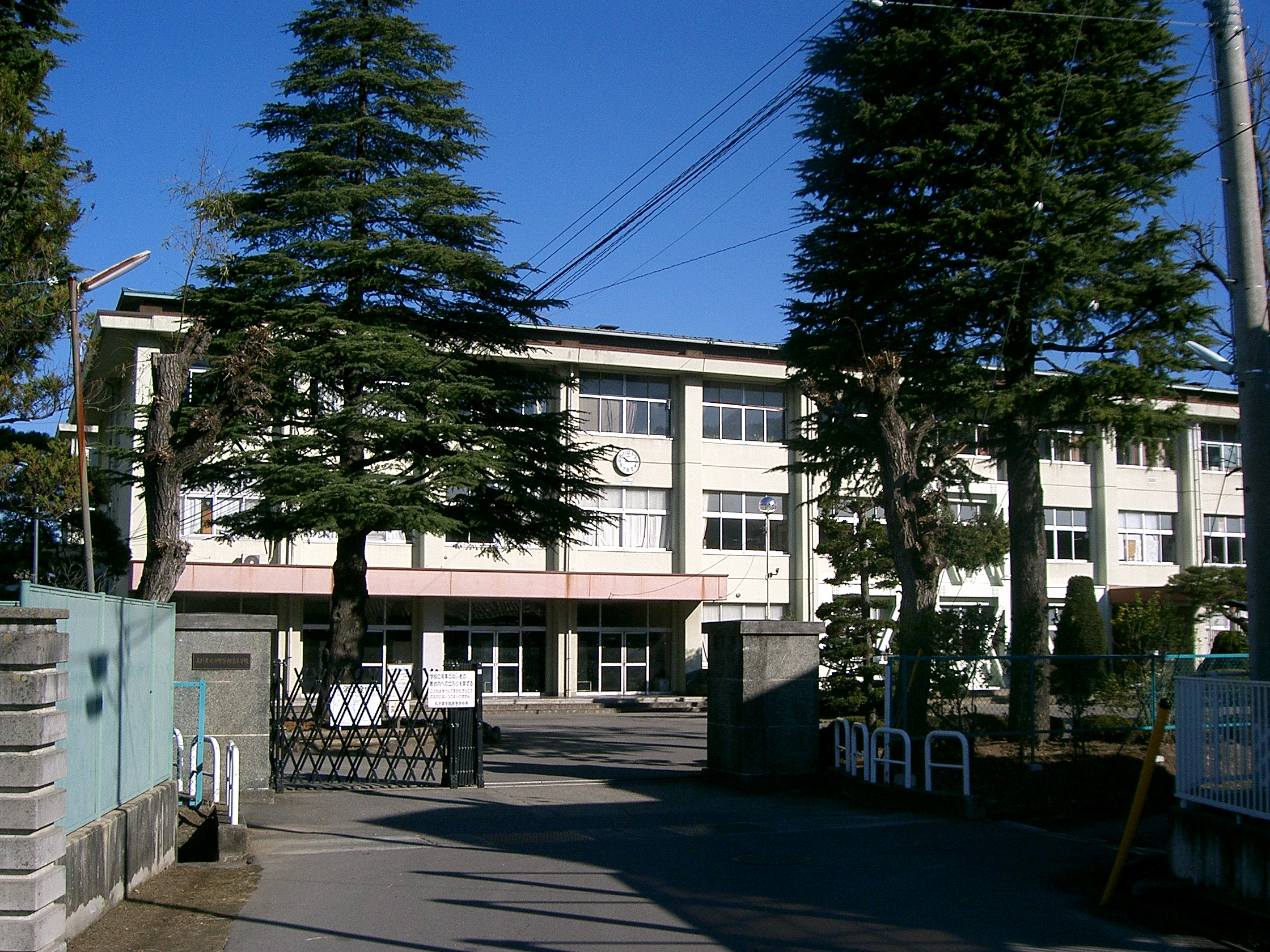 Maruko Shugakukan High School of Nagano prefecture, Japan.